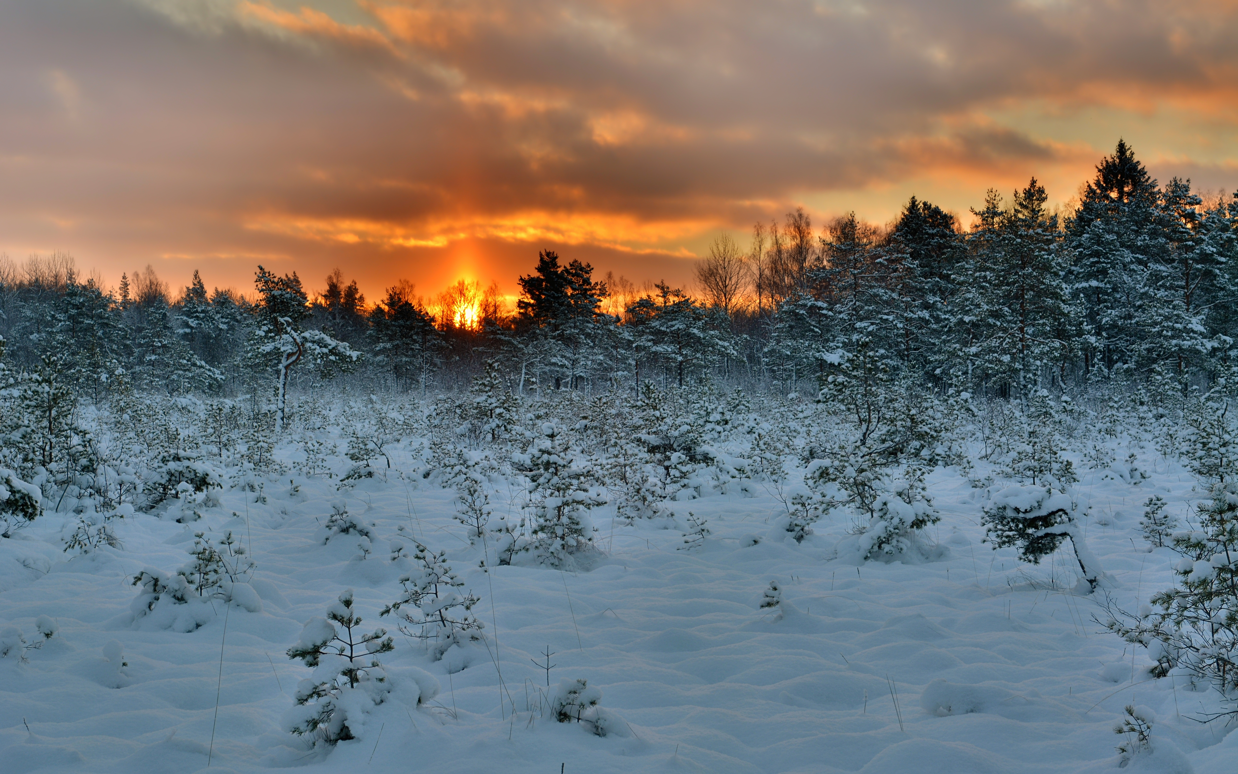 Sunrise in Niitvälja bog (air temperature –14 °C). In-Camera HDR.